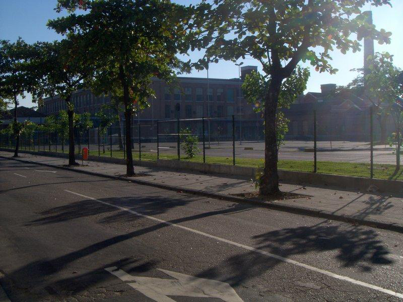 street in Bangu (Rio de Janeiro neighborhood)